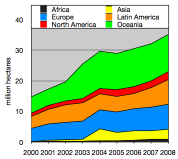 Growth of organic farmland since the year 2000 Development of organically managed land by world regions since 2000 Data